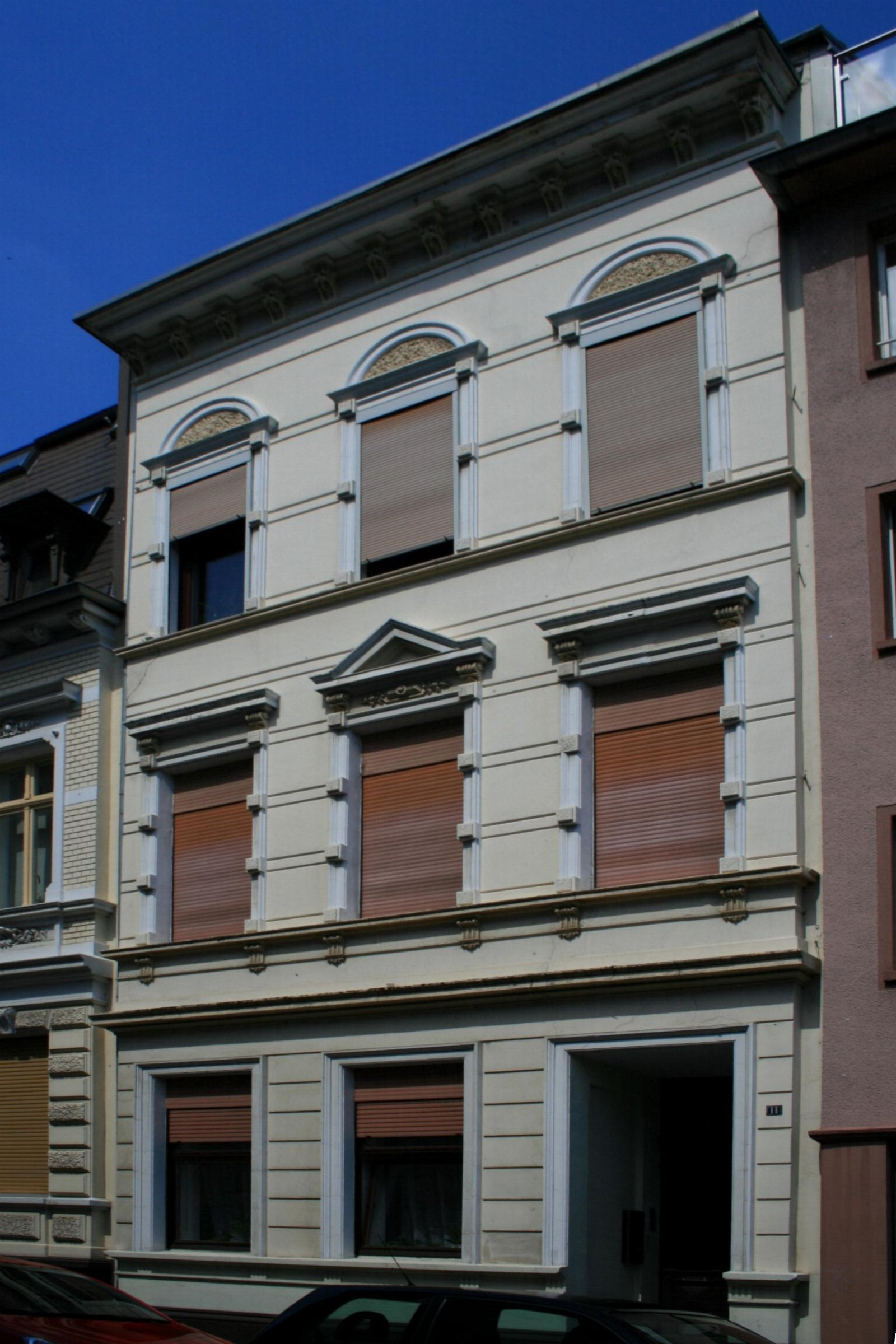 Cultural heritage monument No. M 041 in Mönchengladbach